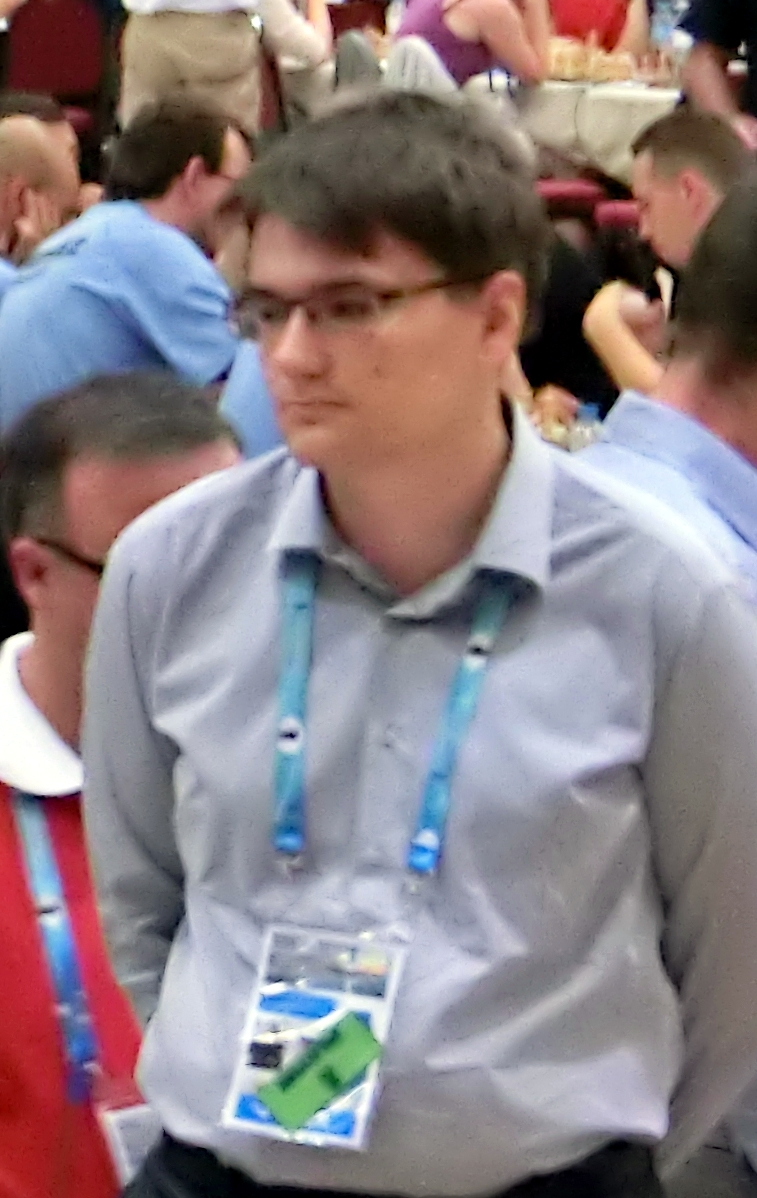 Evgeny Tomashevsky, chess grandmaster from Russia